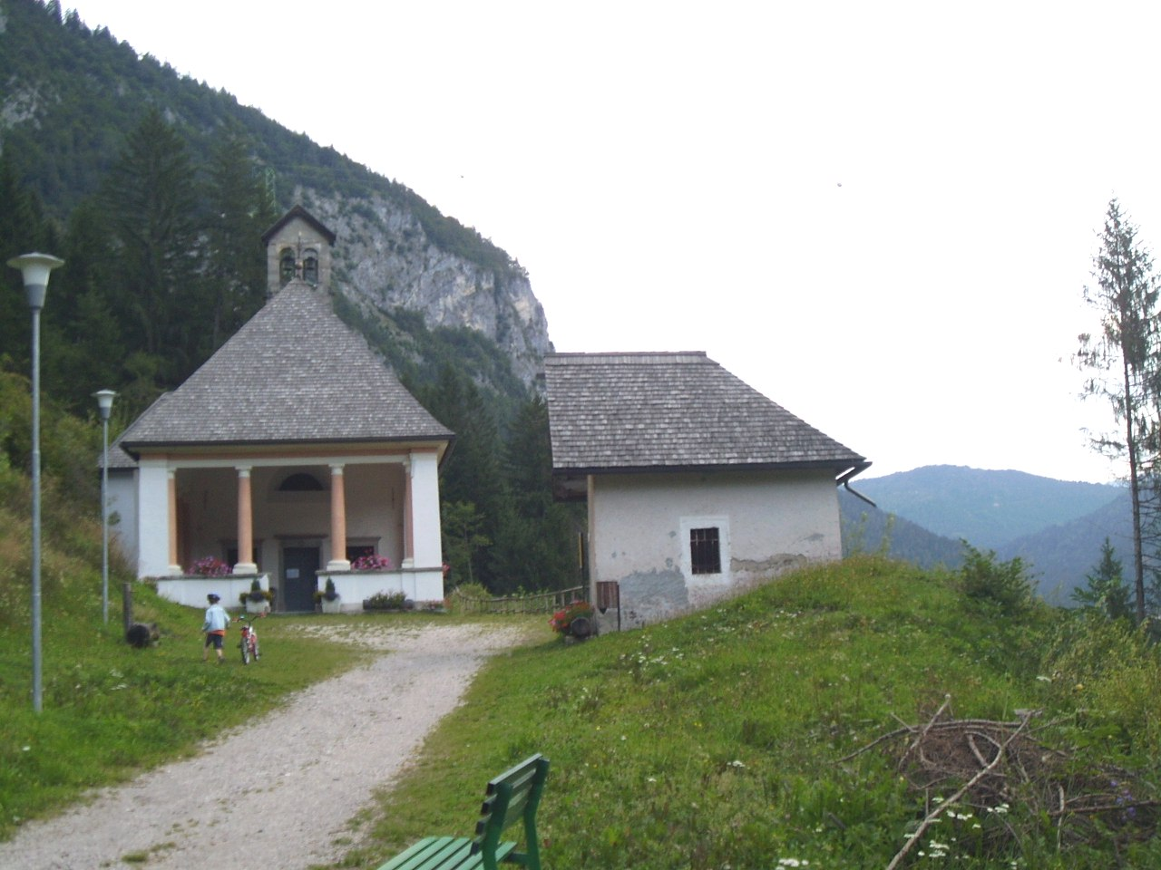 Church of Loreto, Lozzo di Cadore, Italy